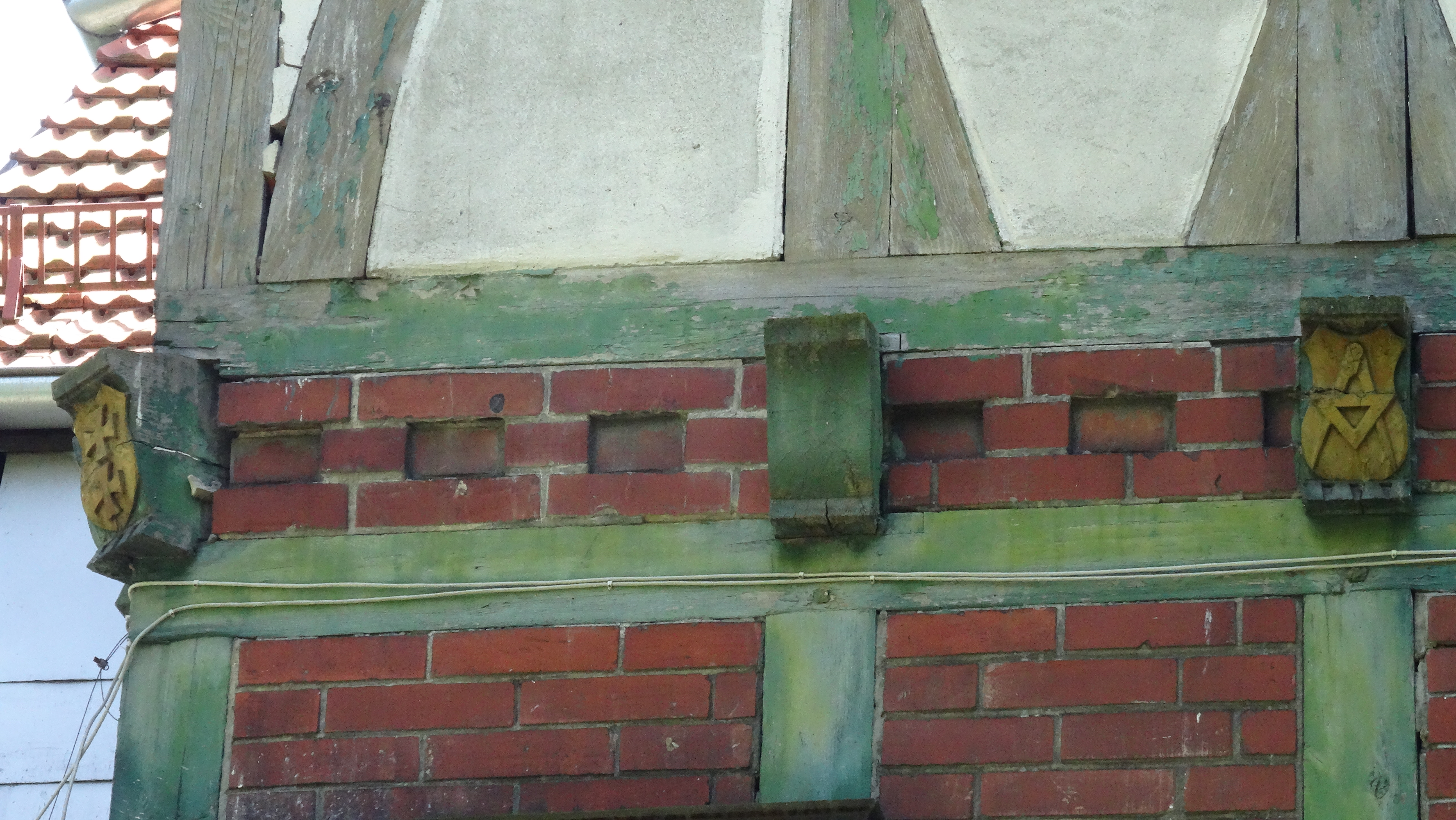 The Masonic Square and Compasses Gdańsk Tuwima 30 Str.